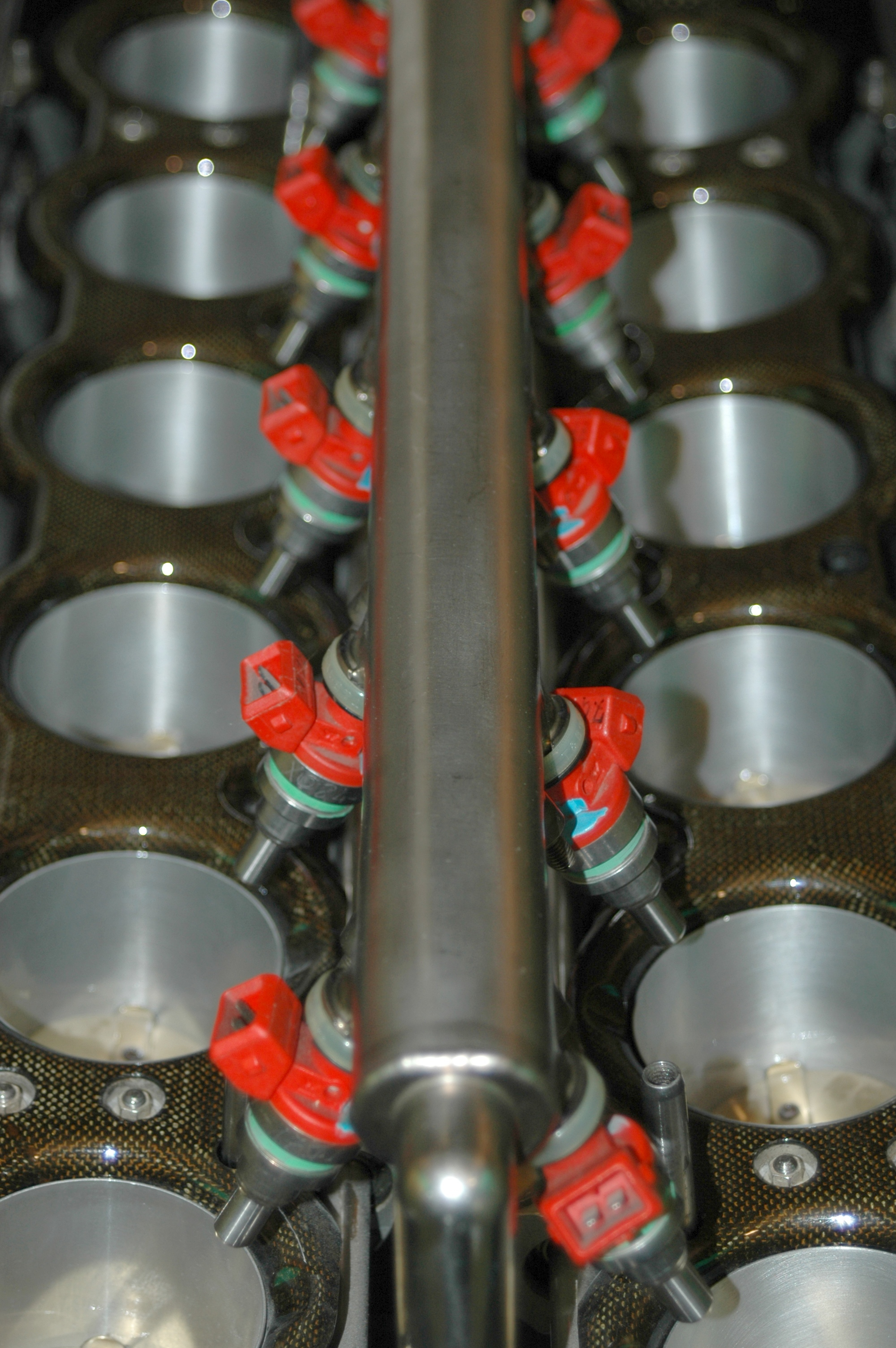 Multi-point fuel injection rail